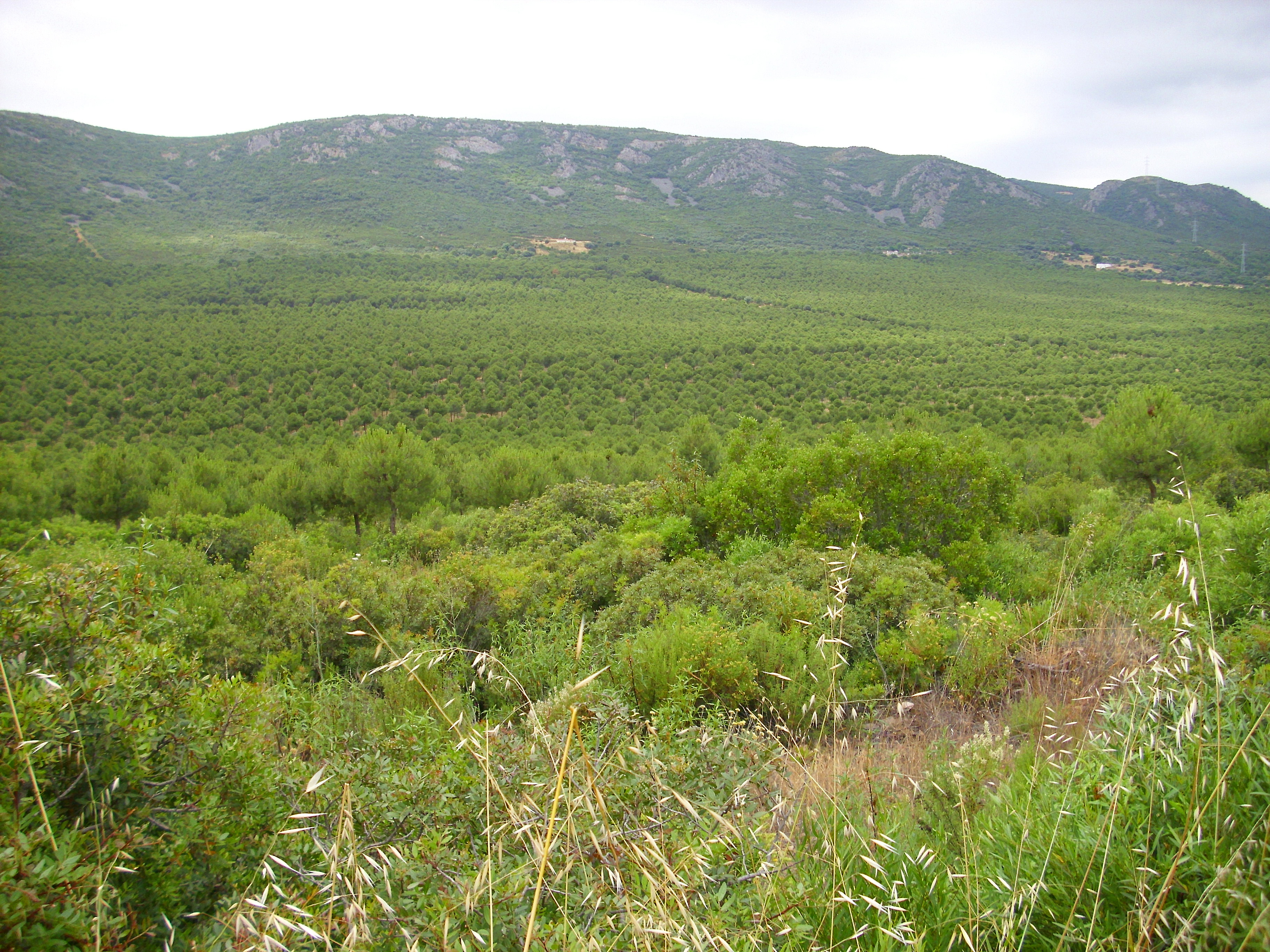 Partial view of Dehesa Boyal de Puertollano, Spain